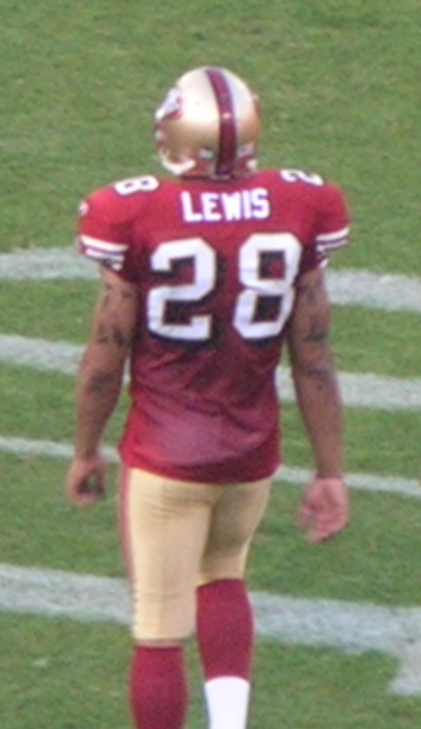 San Francisco 49ers safety Keith Lewis at a regular season game against the St. Louis Rams. The 49ers won 35-16.